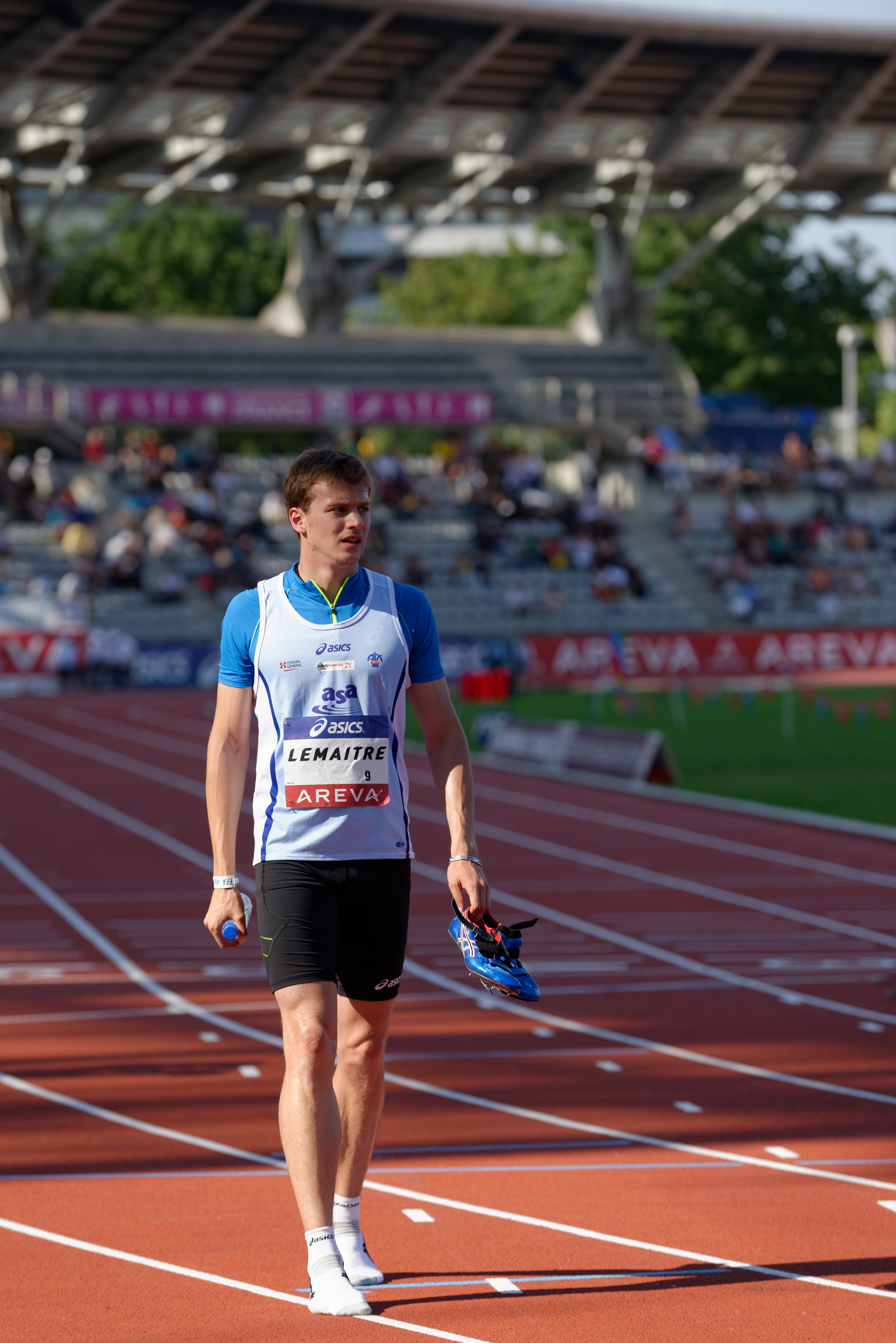 Christophe Lemaître walks back to the locker room after winning the men's 200-metre race in 20″34 during the French Athletics Championships 2013 at Stade Charléty in Paris, 13 July 2013.